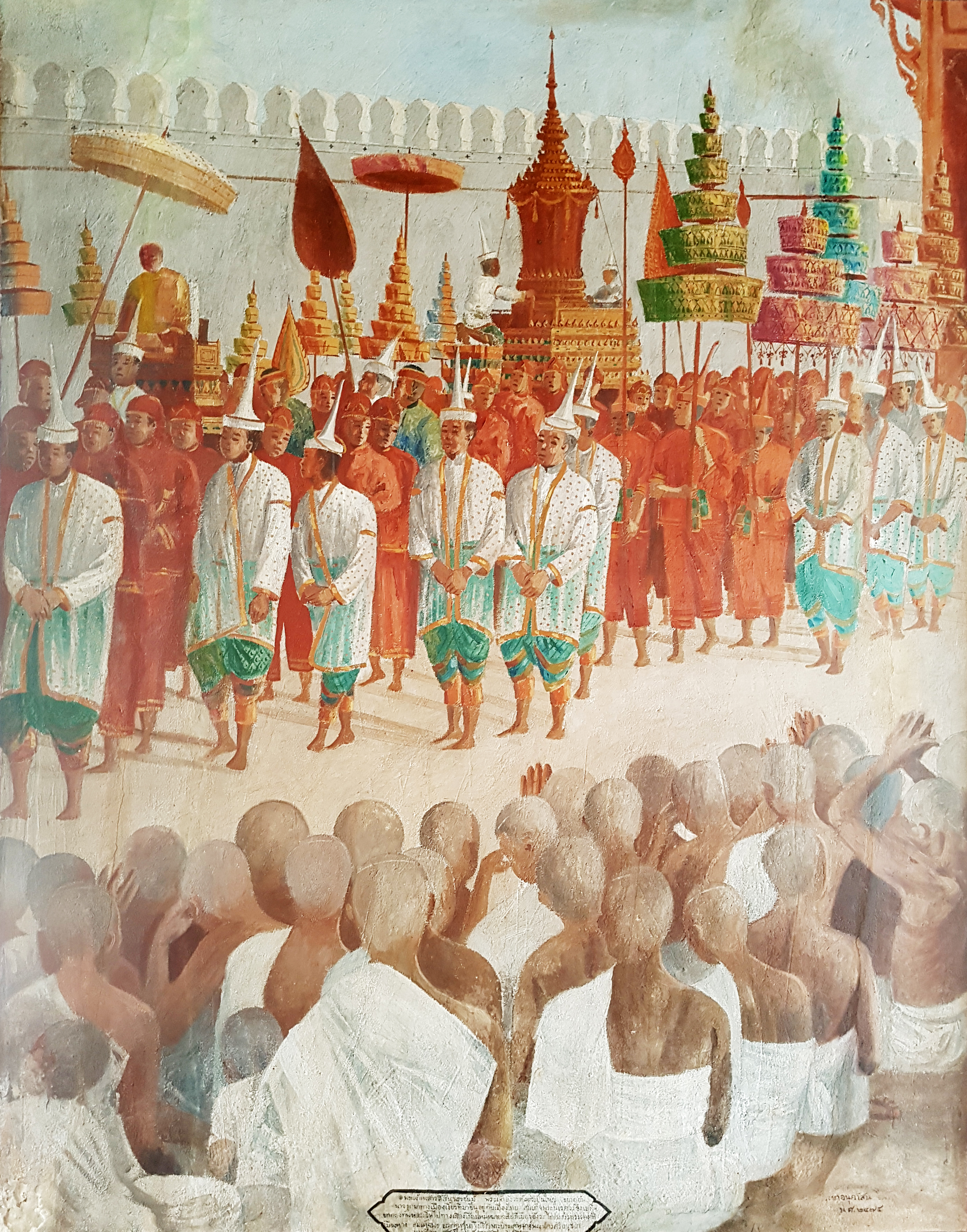 Painting: A funeral procession of Naresuan the king of Ayutthaya in 2147 Buddhist Era (falling between 1604/1605 Common Era). Place: Mural painting inside the wihan of Wat Suwan Dararam, Phra Nakhon Si Ayutthaya Province, Thailand. Painter: Noble title: Phraya Anusat Chittrakon (พระยาอนุศาสนจิตรกร) Real name: Chan Chittrakon (จันทร จิตรกร) Year painted: 2474 Buddhist Era (falling between 1931/32 Common Era)